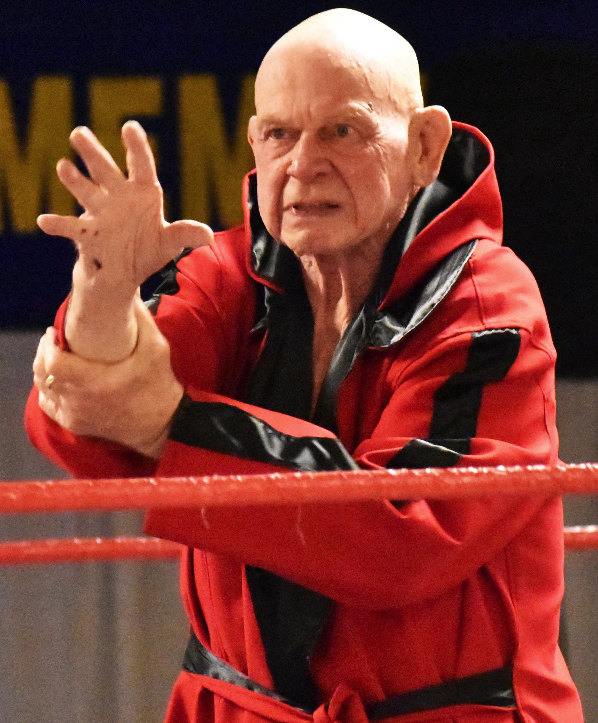 Baron Von Raschke appearing at MKE Wrestling's “The Last Knight” pro-wrestling event in West Allis, Wisconsin on April 19, 2019.